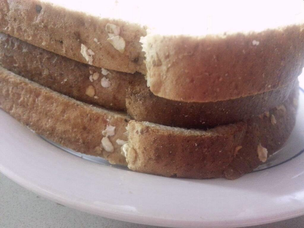 This is an image of a toast sandwich, shot from the side. Sandwich was made and photographed by me, Ryan. It was okay